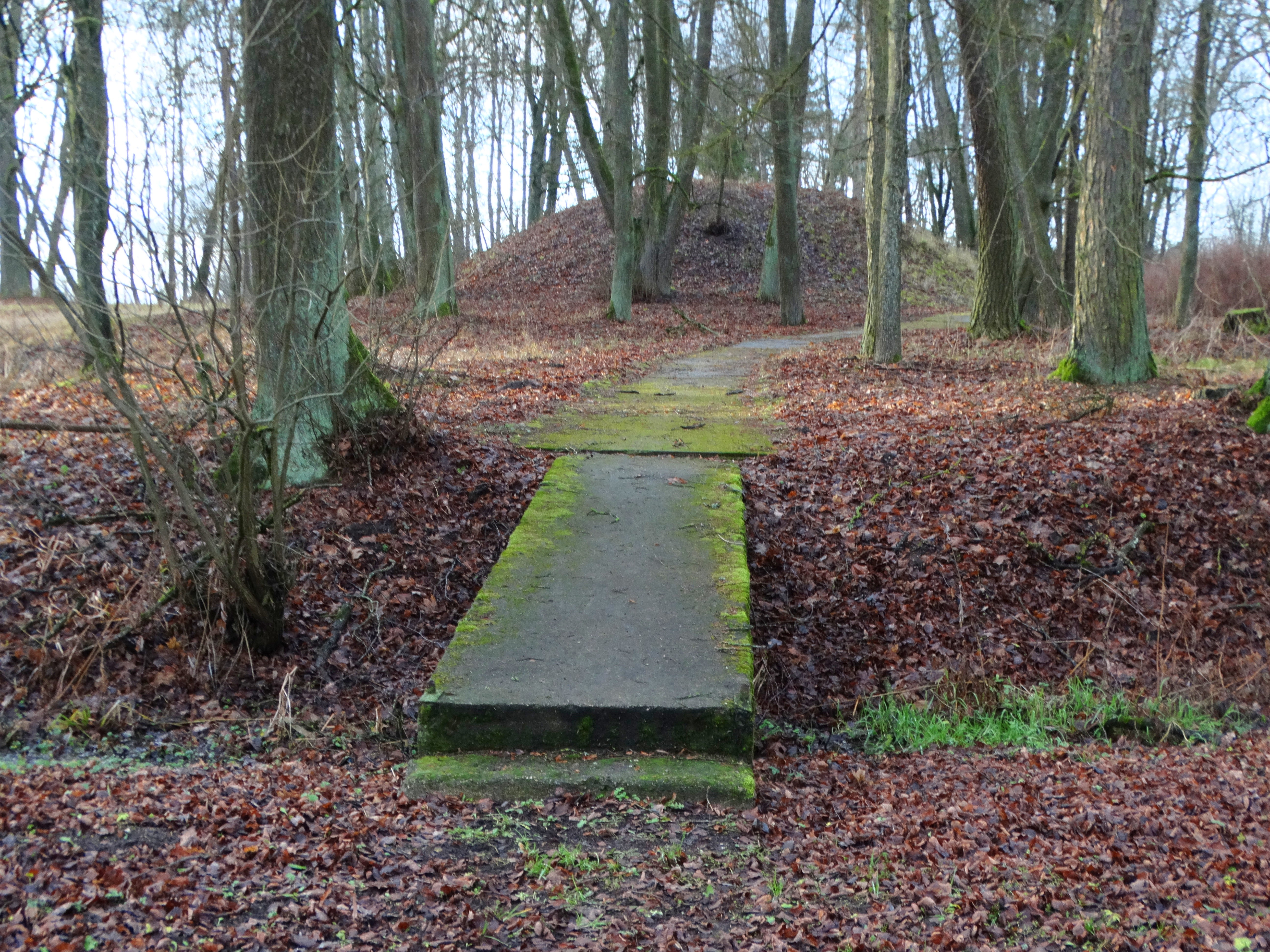 Markutiškiai, former manor park, Jonava District, Lithuania